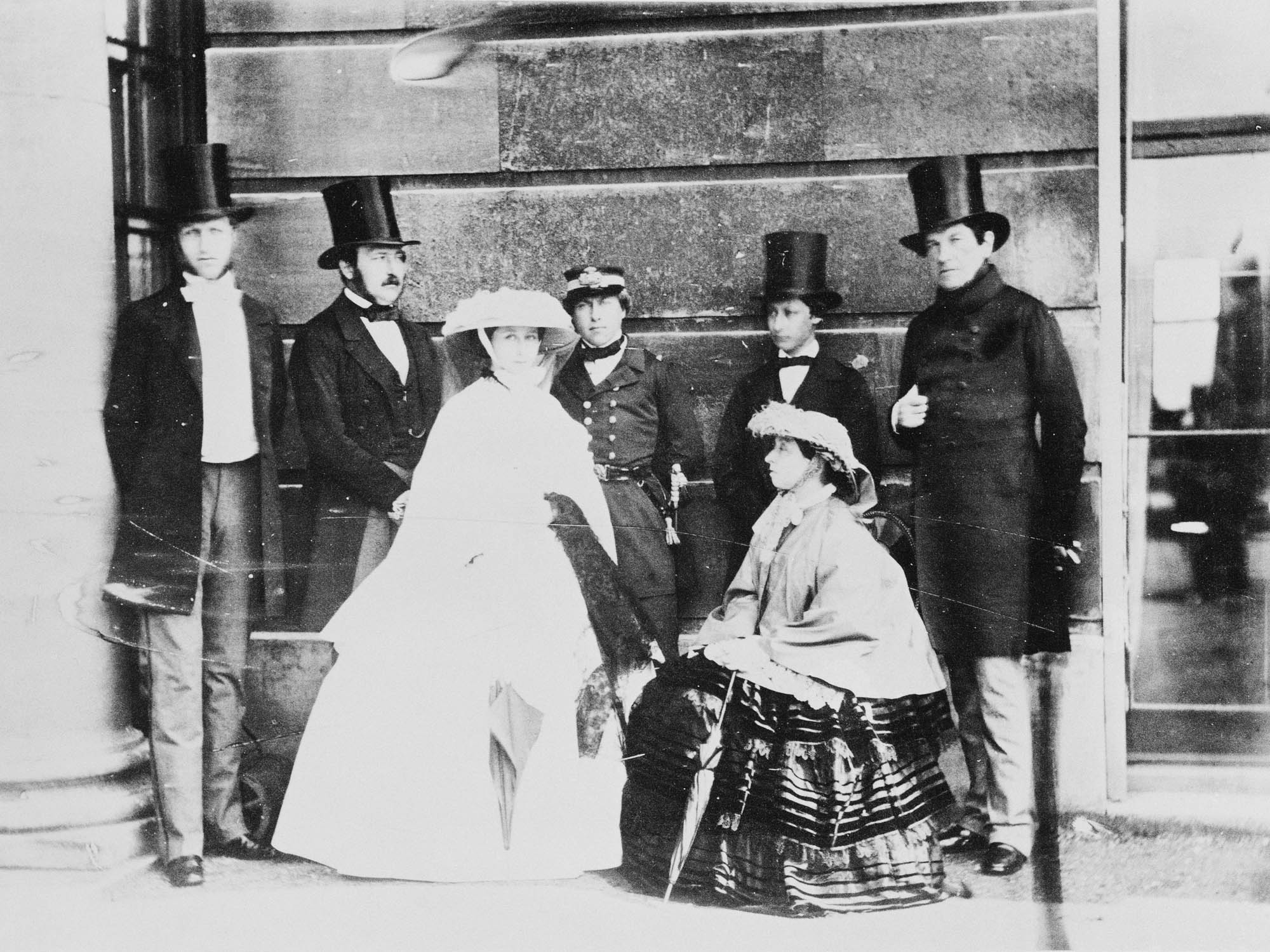 Group photograph of (from left to right) Prince Philippe, Count of Flanders; Prince Albert, Prince Consort; Princess Alice; Infante Luís, Duke of Porto, later King Luís I of Portugal; Queen Victoria; Albert Edward, Prince of Wales, later King Edward VII; and King Leopold I of the Belgians; 1859